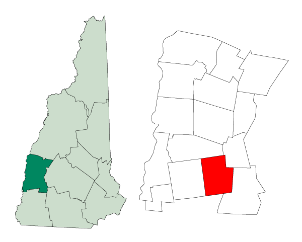 Map of a municipality in Sullivan County, New Hampshire